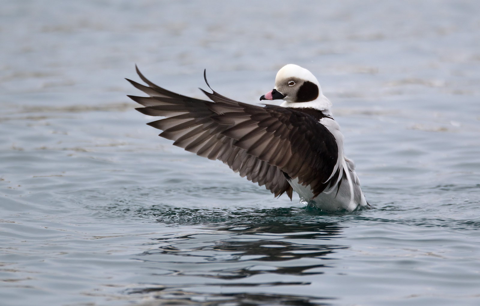 An adult male Long-tailed Duck in Hokkaido, Japan.